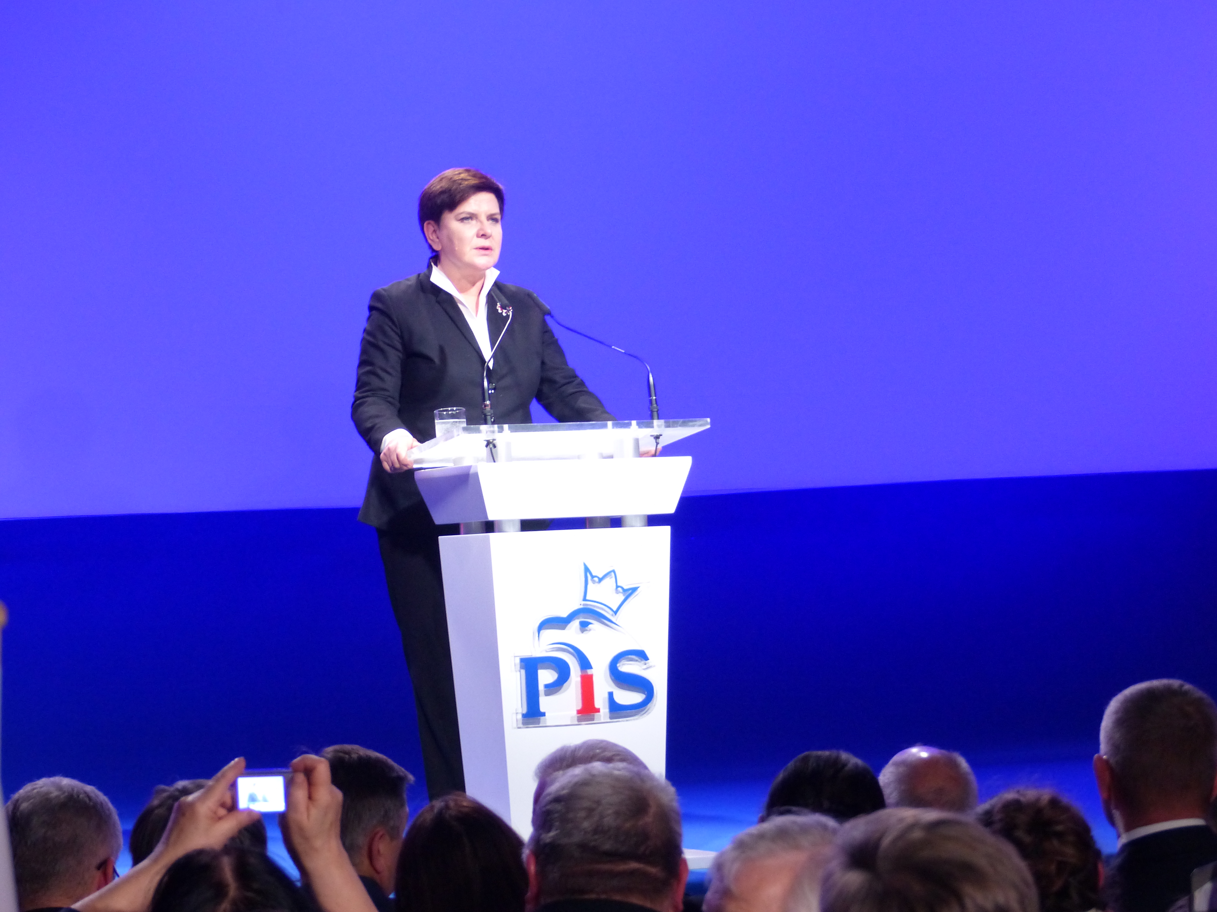 Beata Szydło. National Independence Day. Taken on the 11th of November, 2016. Krakow, Central Europe. Poland celebrated on this day its independence. In 1918, after 123 years of partition by the Russian Empire, the Kingdom of Prussia and the Habsburg Empire Poland's sovereignty was restored. PTG Sokół Józefa Piłsudskiego 27 33-332, Poland, Central Europe.